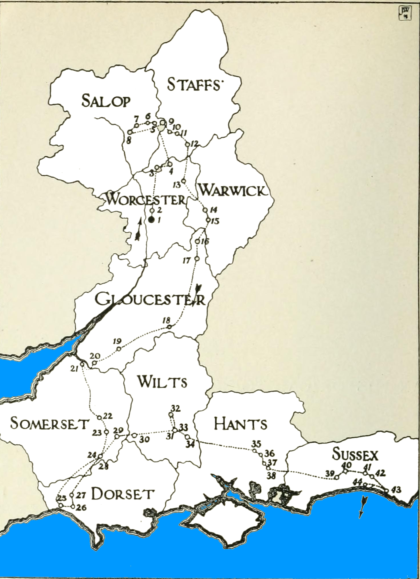 Map of the route taken by King Charles II when he excaped from England to France (3 September – 16 October 1651) Worcester Barbon Bridge Kinver Heath Stourbridge White Ladies Hobbal Grange Evelith Madeley Boscobel Pendeford Moseley Bentley Bromsgrove Wooton Stratford Long Marston Campden Cirencester Sodbury Bristol Abbots Leigh Burton Castle Cary Trent Charmouth Bridport Broadwindsor Trent Wincanton Mere Heale Stonehenge Heale Clardenon Park Warnford Old Winchester Broadhalfpenny Hambledon Arundel Houghton Bramber Beeding Brighton Shoreham